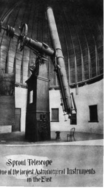 Sproul Telescope at Swarthmore College - image from H.V. Smith's Chester and Vicinity - published 1914